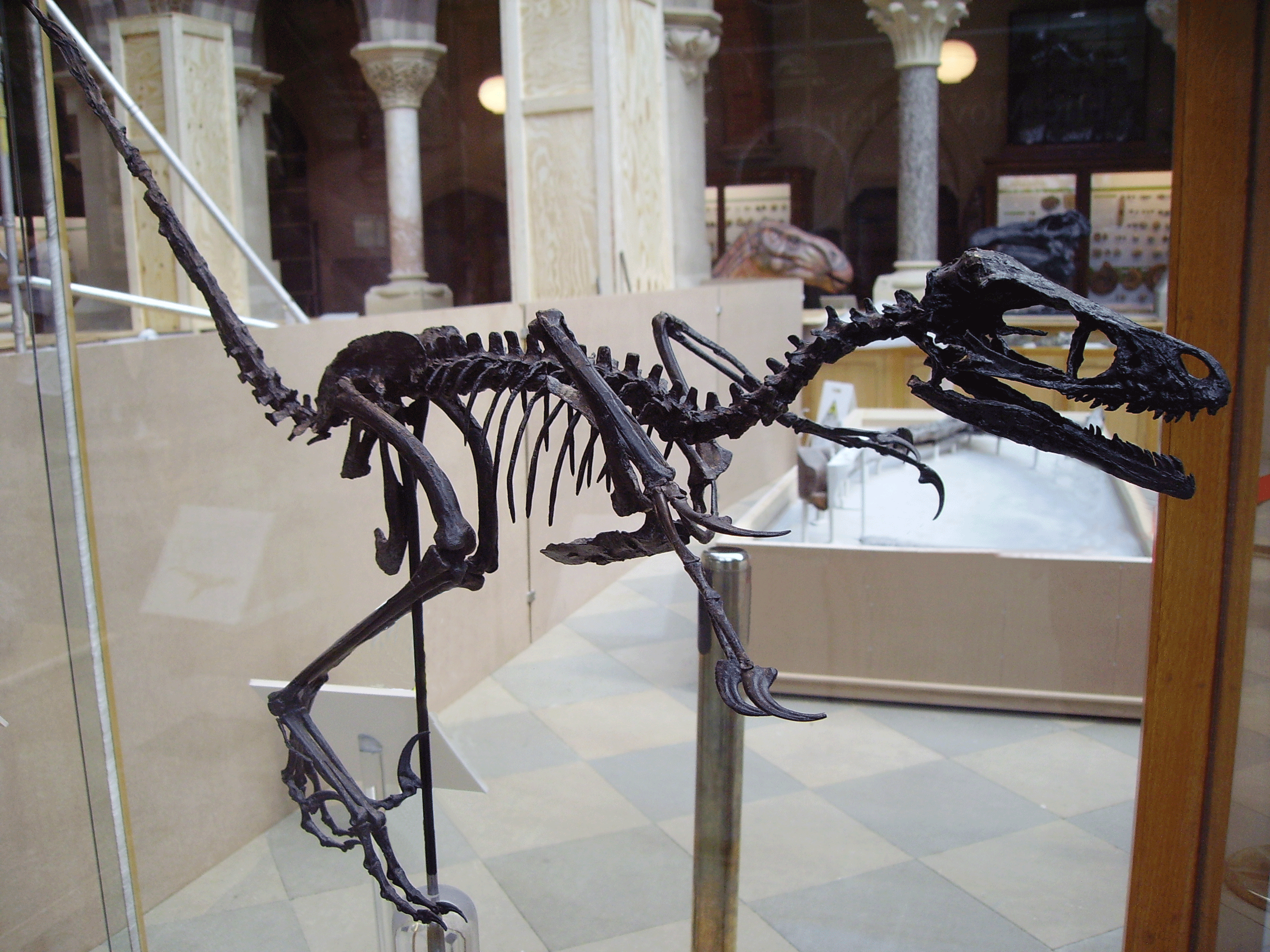 Photographer: User:Ballista Edited in Adobe PhotoShop by User:Firsfron